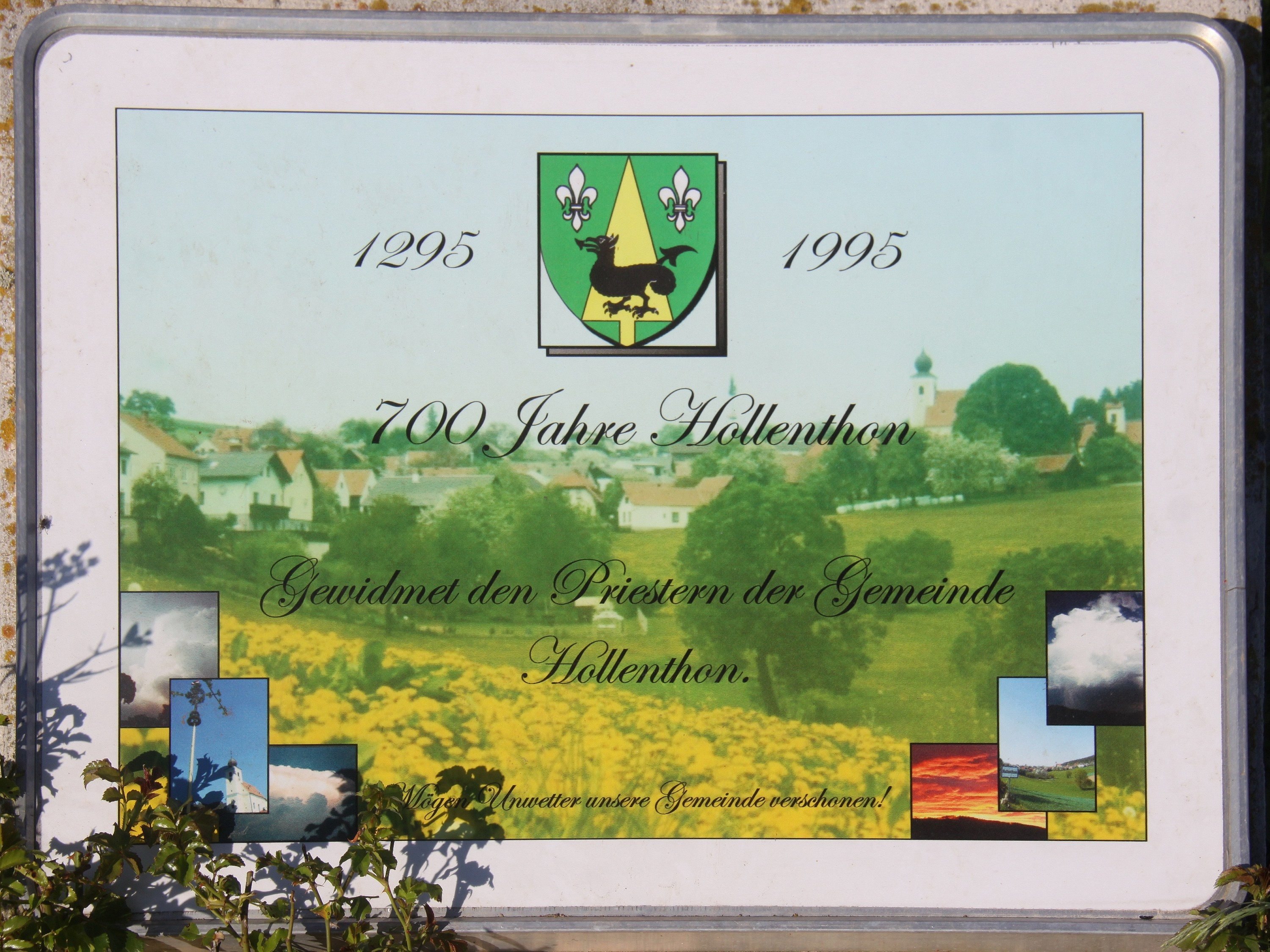 Municipality Hollenthon in Lower Austria. – The photo shows the plaque 700 years Hollenthon (from 1995).